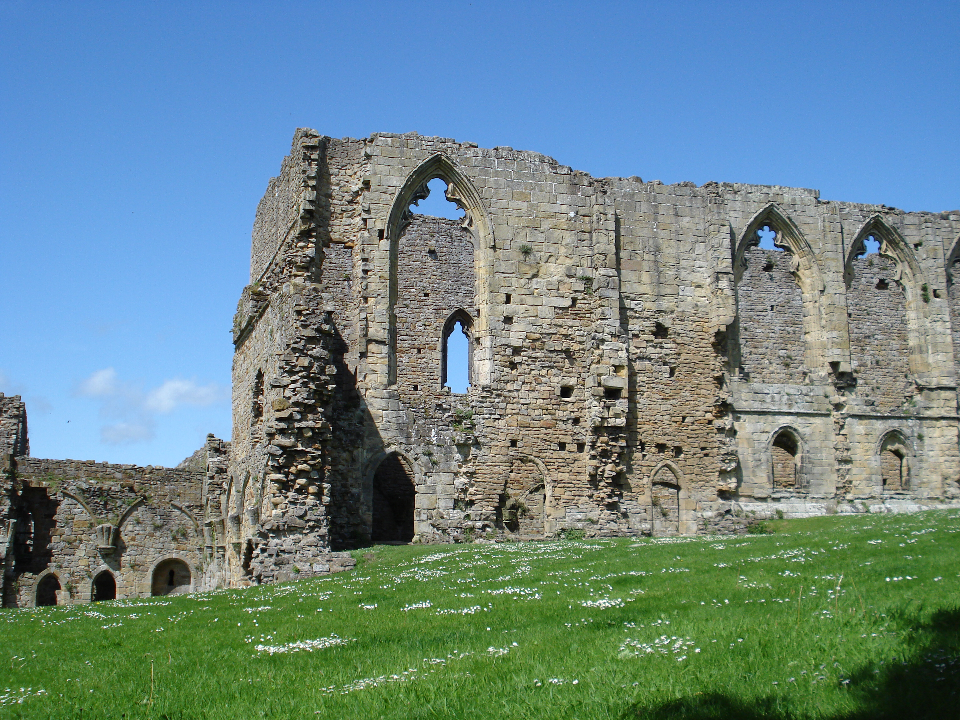 Easby Abbey, Yorkshire, England